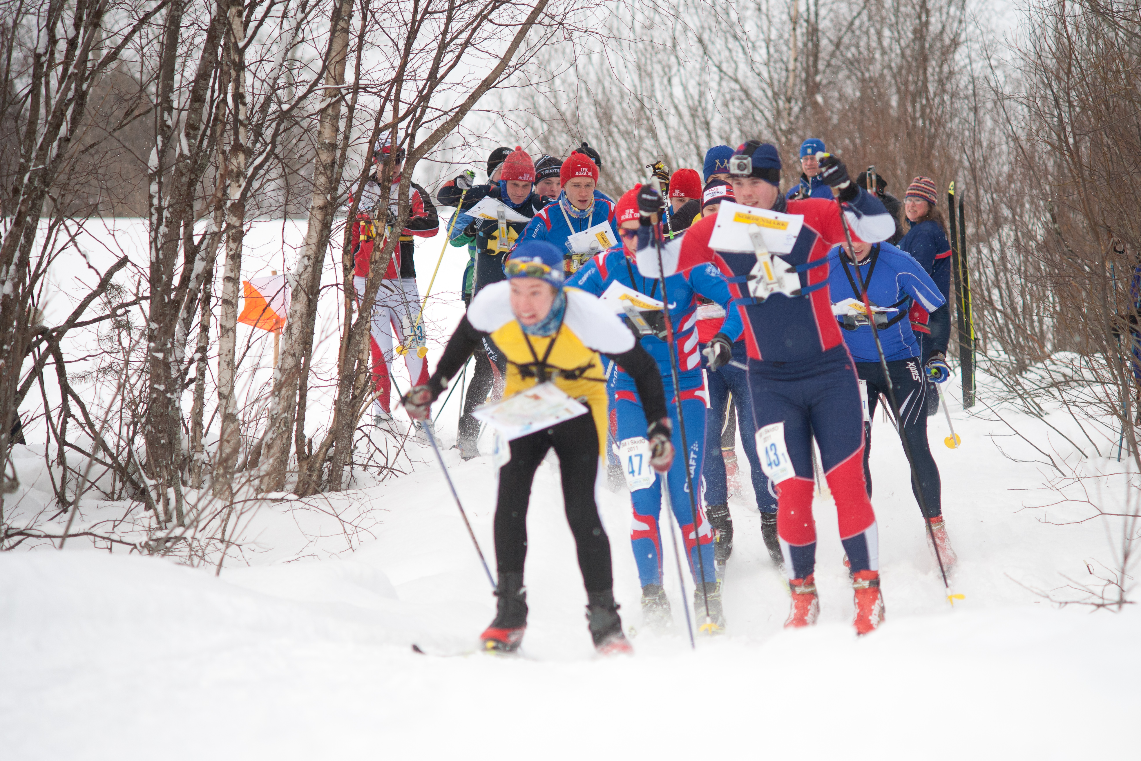 Start at the swedish ski-orienteering championships relay.